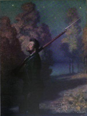 Illustration for poem "The Picket Guard", p. 90., by N. C. Wyeth (illus.) and Matthews, Bander (ed.)